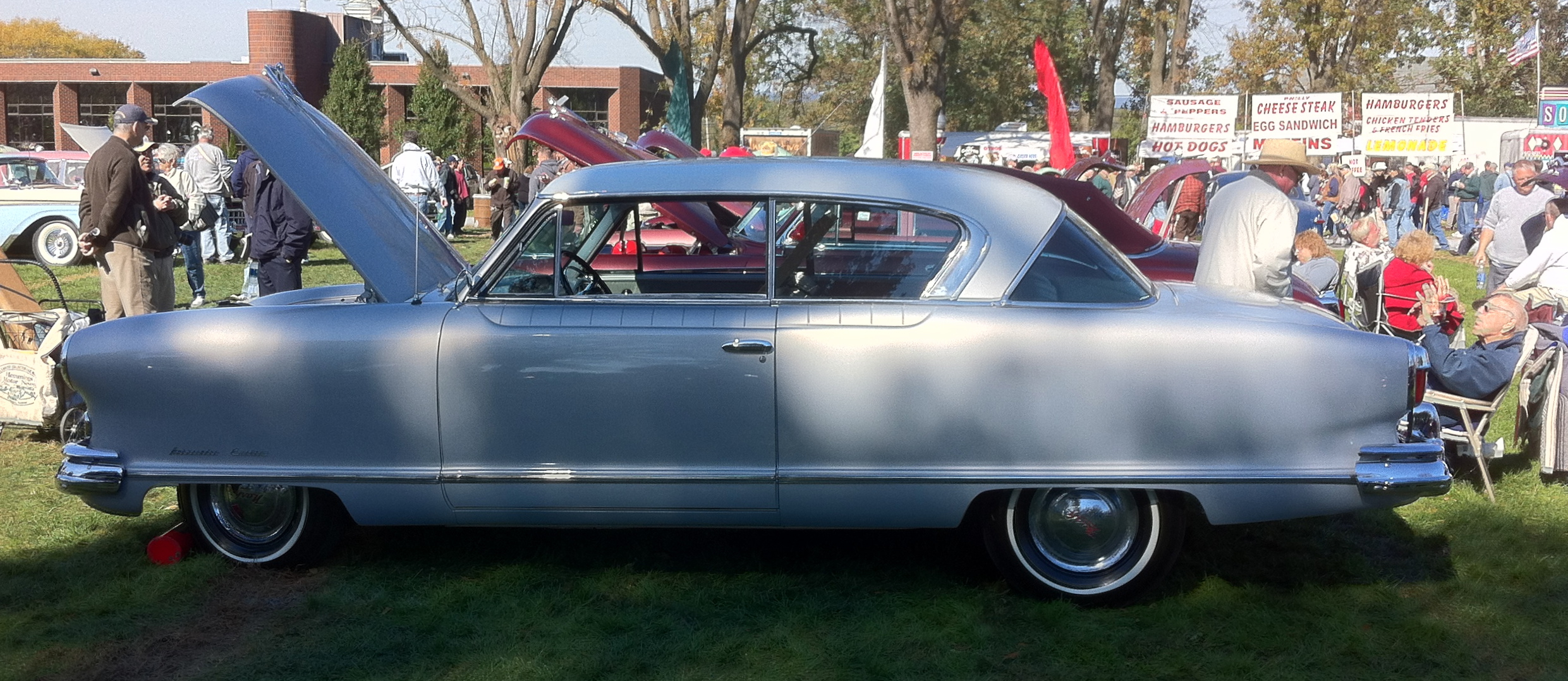 1953 Nash Ambassador two-door hardtop (no "B" pillar) featuring a 120-horsepower Super Jetfire straight-six engine and HydraMatic automatic transmission. Picture taken on the show field of the Antique Automobile Club of America (AACA) 2012 Hershey meet that is held every October in Pennsylvania.